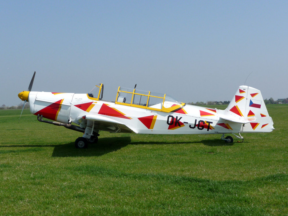 Zlin 226MS Trener OK-JGT